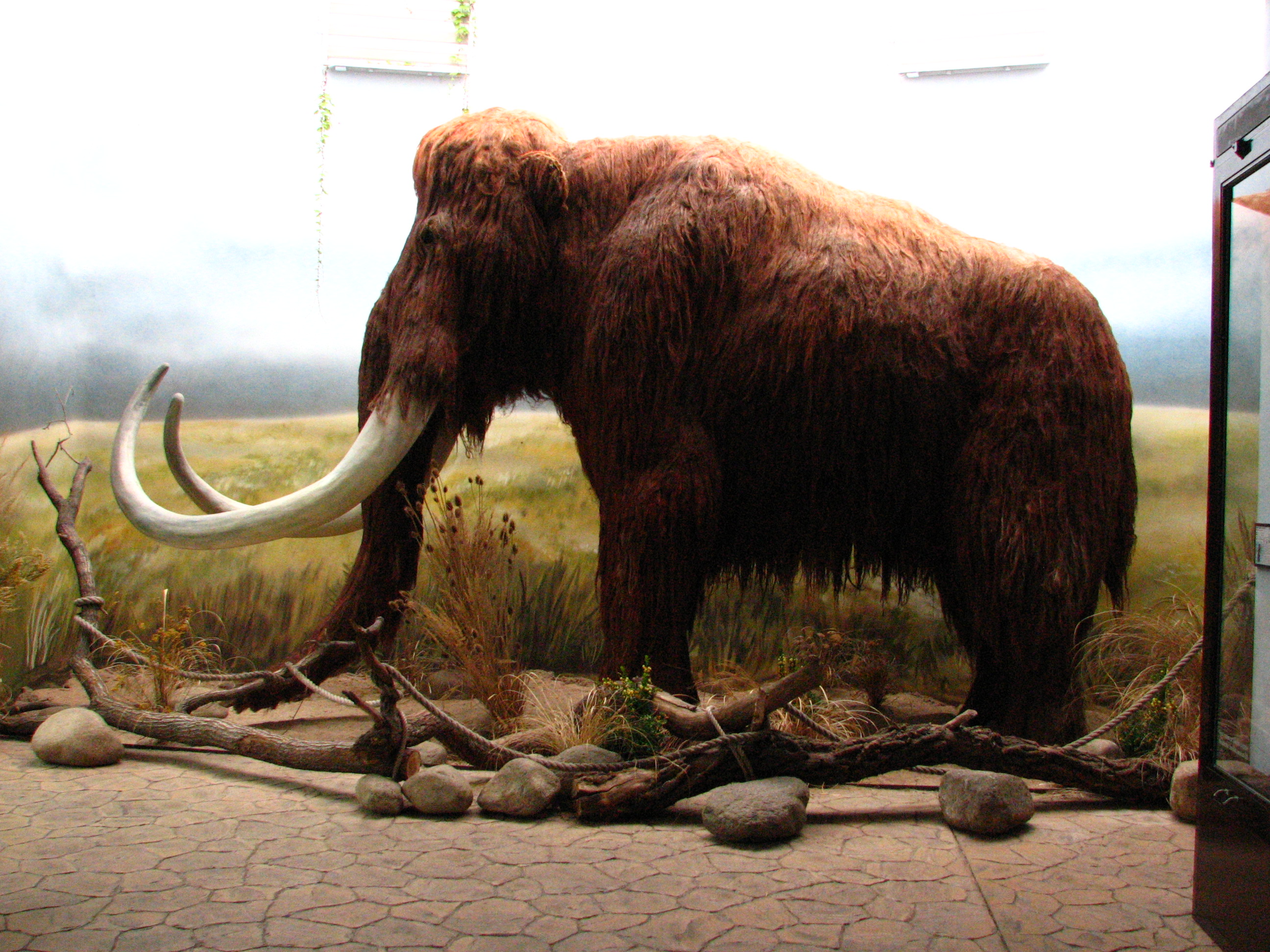 Fake mammoth in ZOO Dvůr Králové, Czech Republic